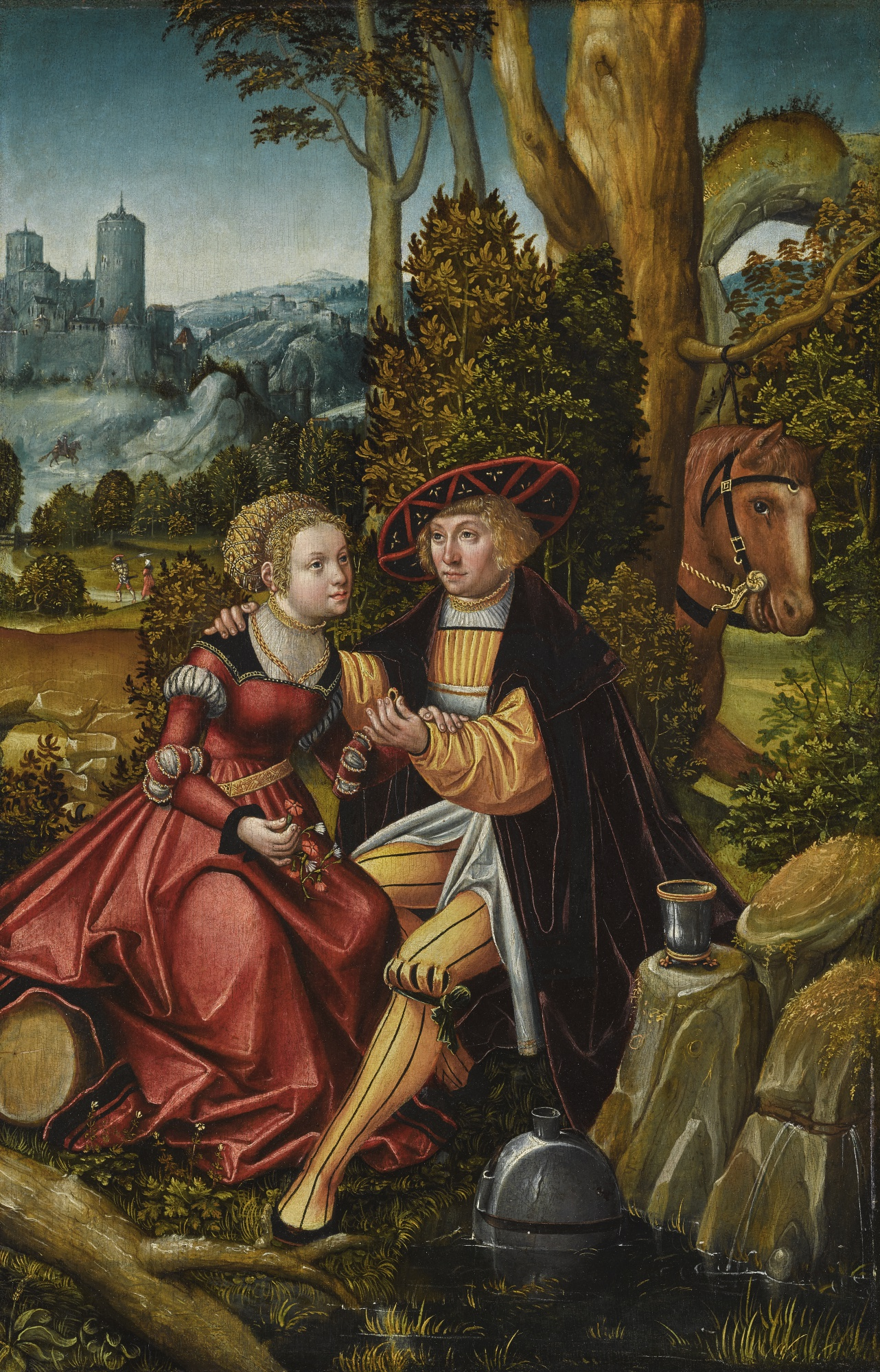 Hans Kemmer (previously attributed to The Master of the Lockinge Courtship panel): Courtship or The offer of love (Liebesgabe), painted c. 1530 for Johann Wigerinck, Old Masters Evening Sale, July 4, 2018, purchased by Lübecker Museen ( see Eine „Liebesgabe“: Ein Gemälde des Lübecker Malers Hans Kemmer bereichert die Sammlung des St. Annen-Museums in Lübeck und kann jetzt besichtigt werden.